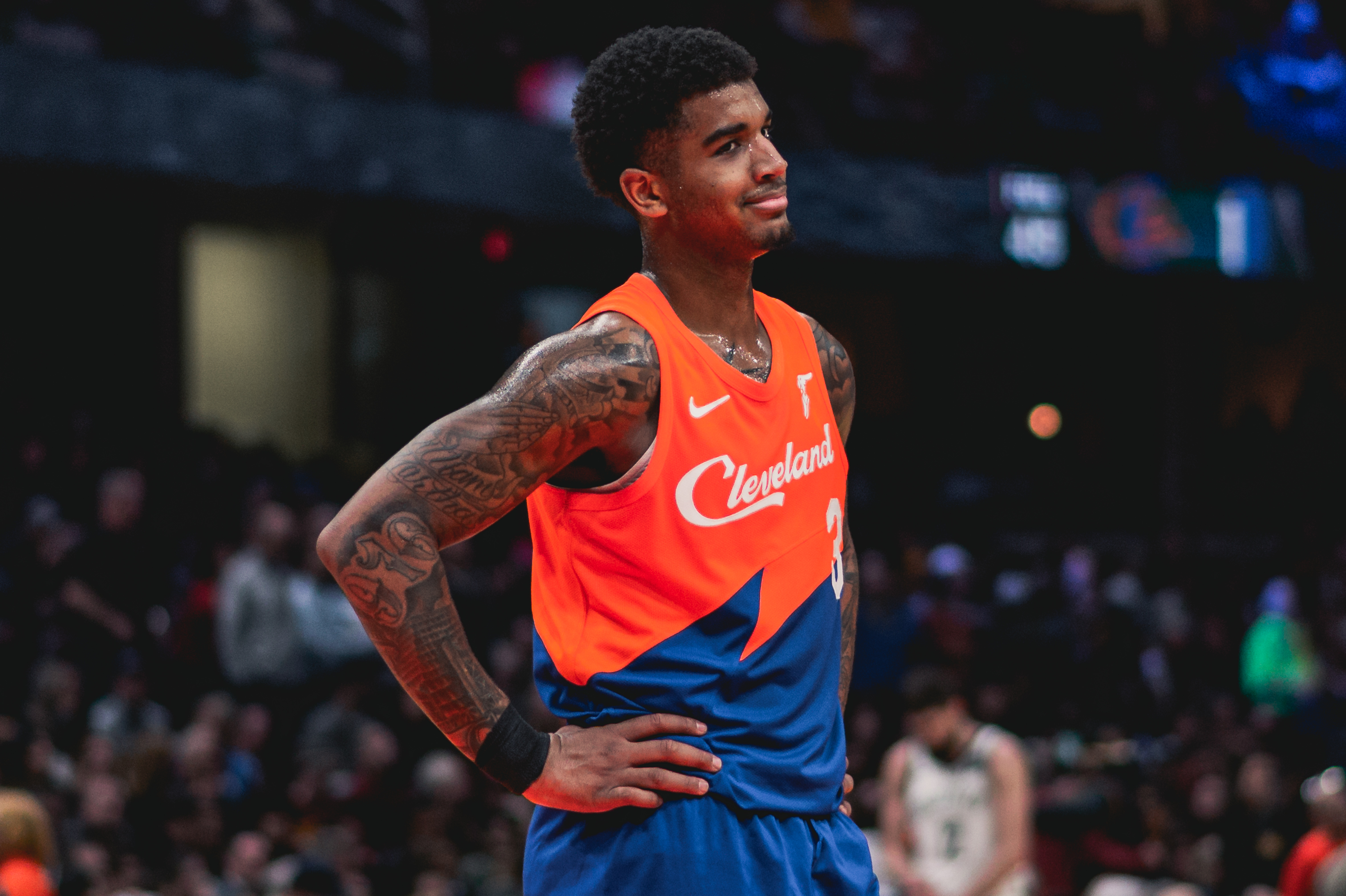 Marquese Chriss playing for the Cavs in 2019